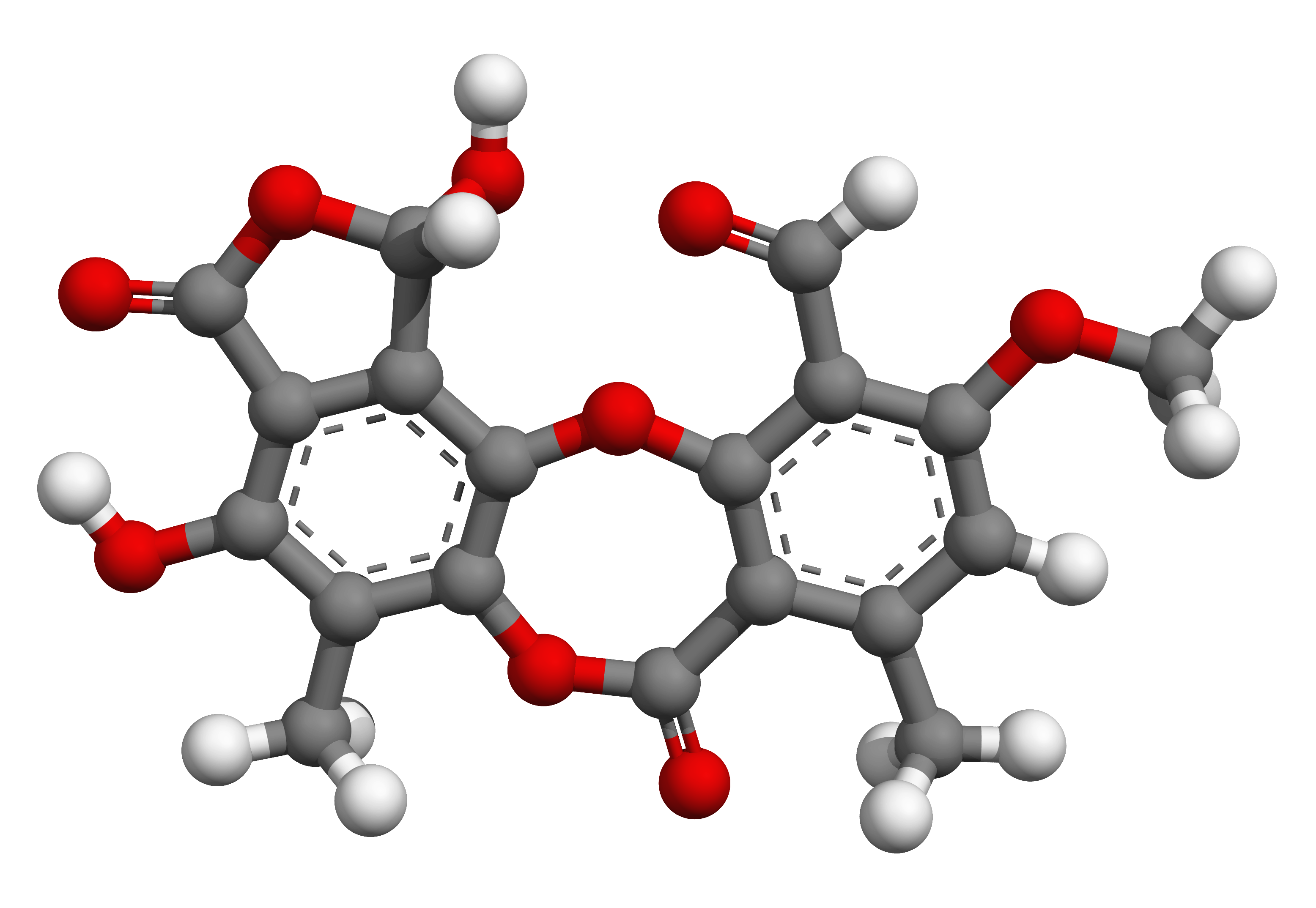 Stictic acid - 3D - Ball-and-stick Model Data from PubChem entry CID 73677 Black: Carbon, C White: Hydrogen, H Red: Oxygen, O